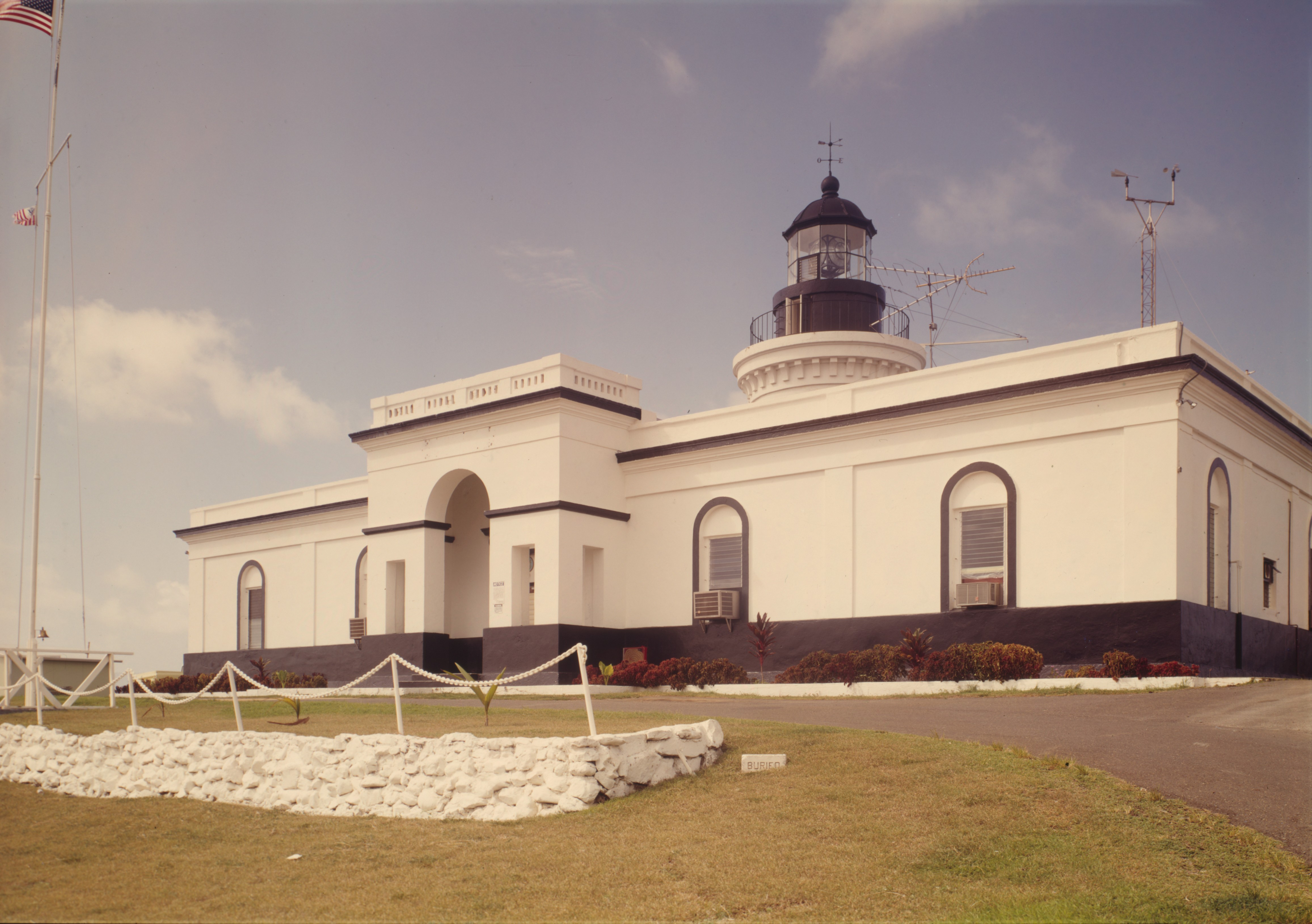 The Las Cabezas de San Juan Lighthouse